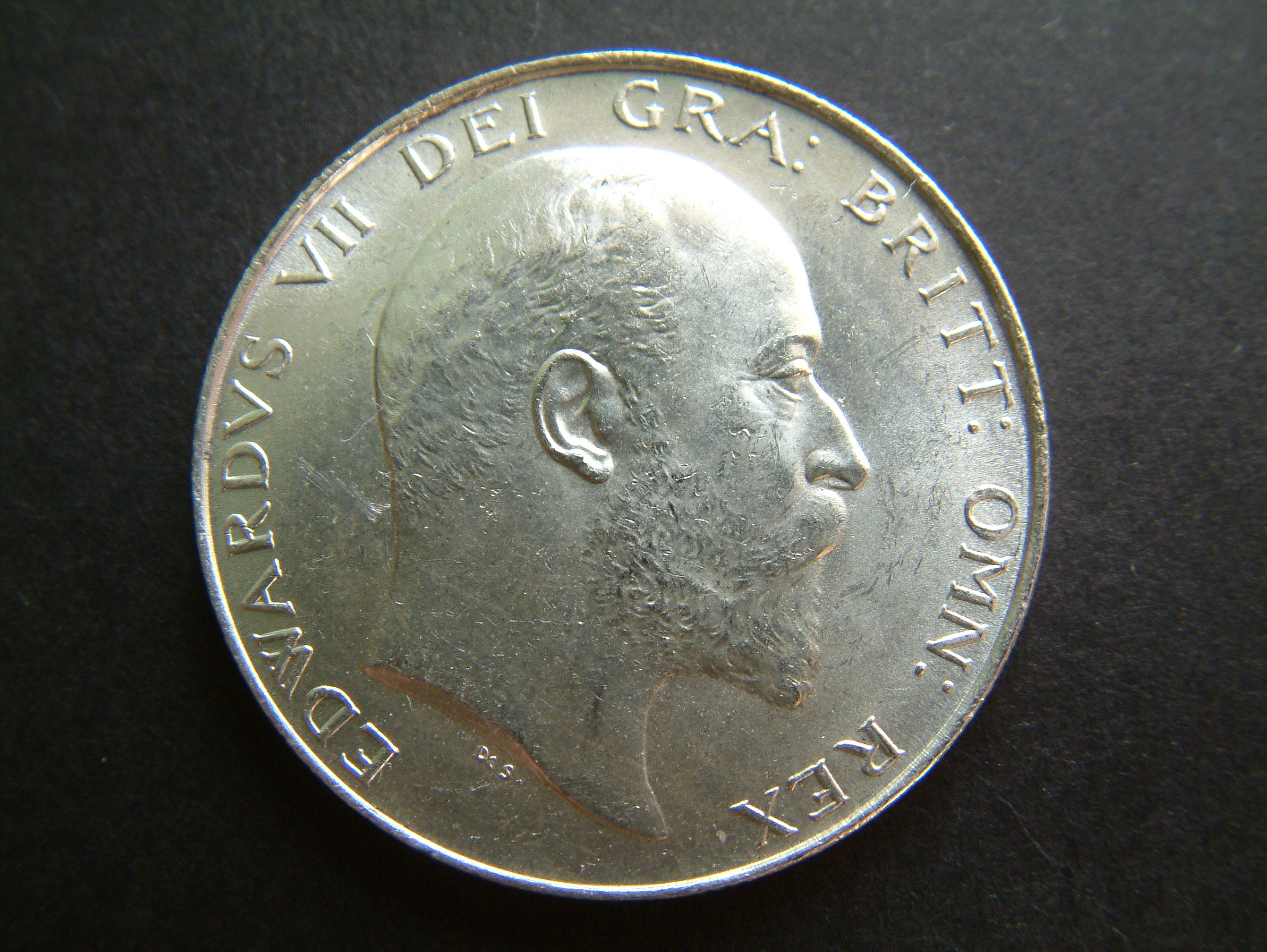 Obverse of an Edward VII halfcrown showing the designer's initials underneath the bust.